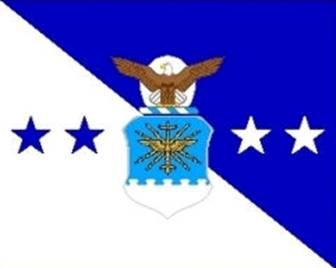 Flag of the Chief of Staff of the United States Air Force